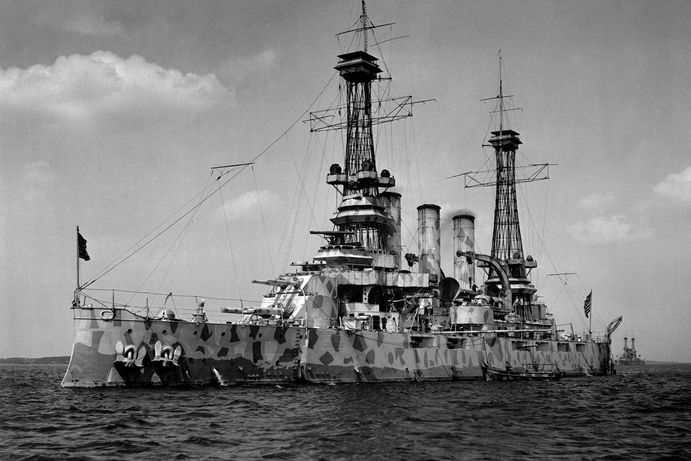 The USS New Jersey (BB-16) in camouflage coat.